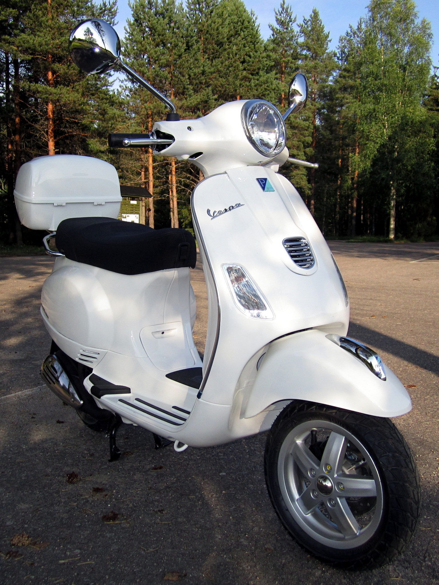 Piaggio's small frame motor scooter, the LX 150 3V (2013). An optional topbox has been installed.